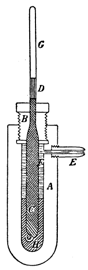 Louis Paul Cailletet's pump